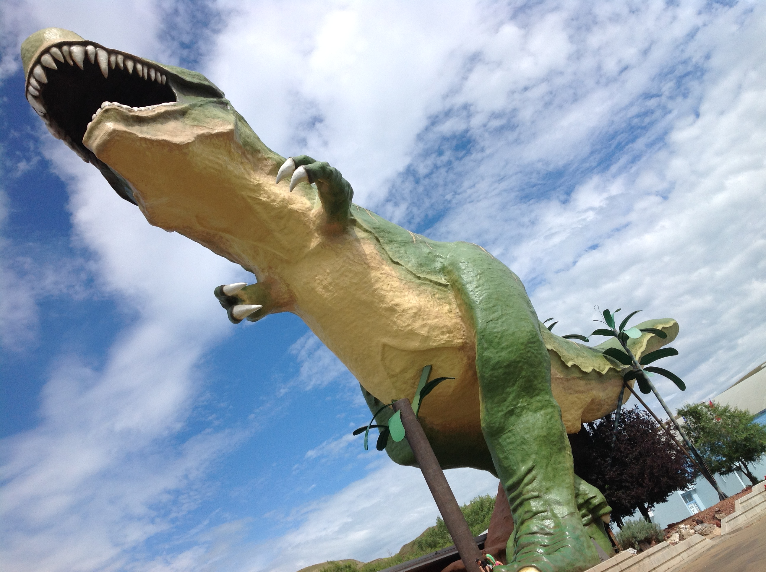 World's Largest Dinosaur